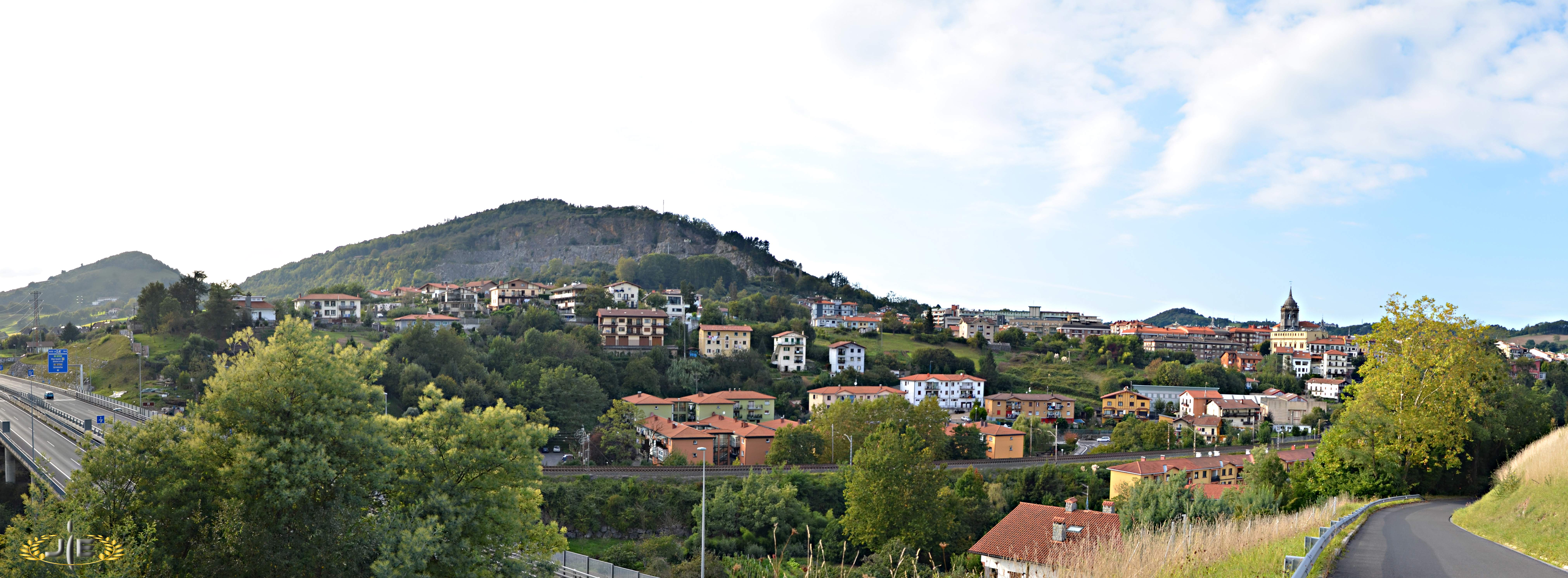 Landscape of Hernani and the Mountain called Santa Barbara